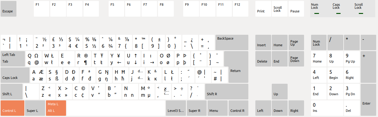 English United Kingdom International Keyboard under Ubuntu